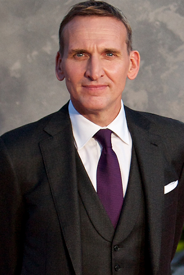 Actor Christopher Eccleston at the premiere for Thor: The Dark World, October 25, 2013